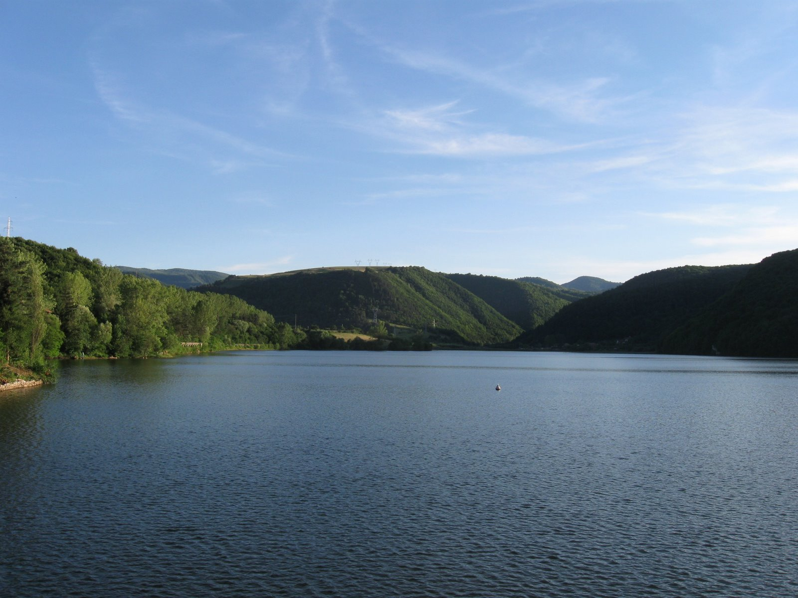 Gilău Lake